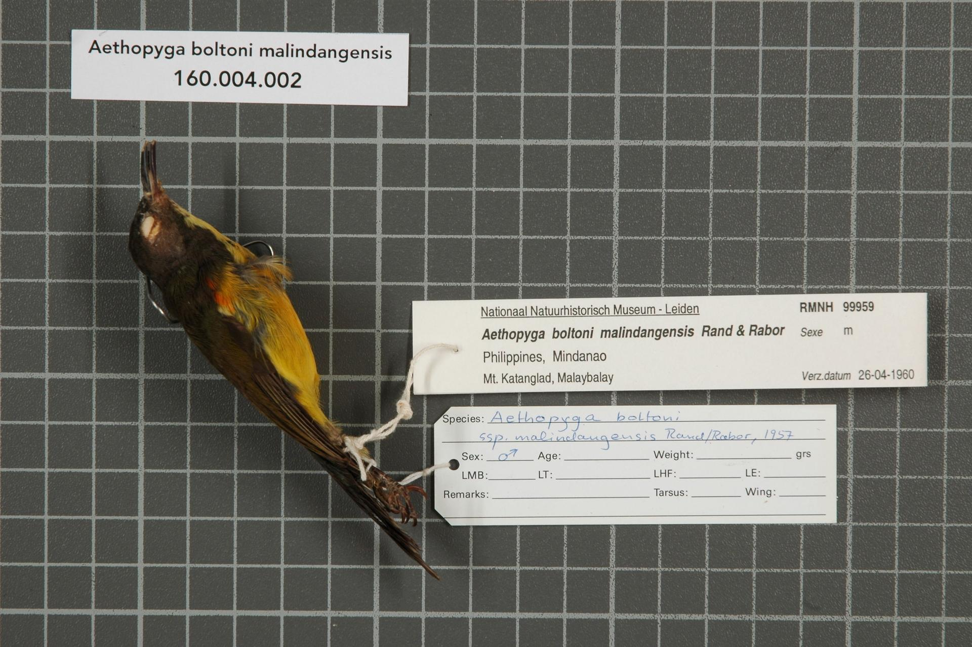 Aethopyga boltoni malindangensis Rand and Rabor, 1957